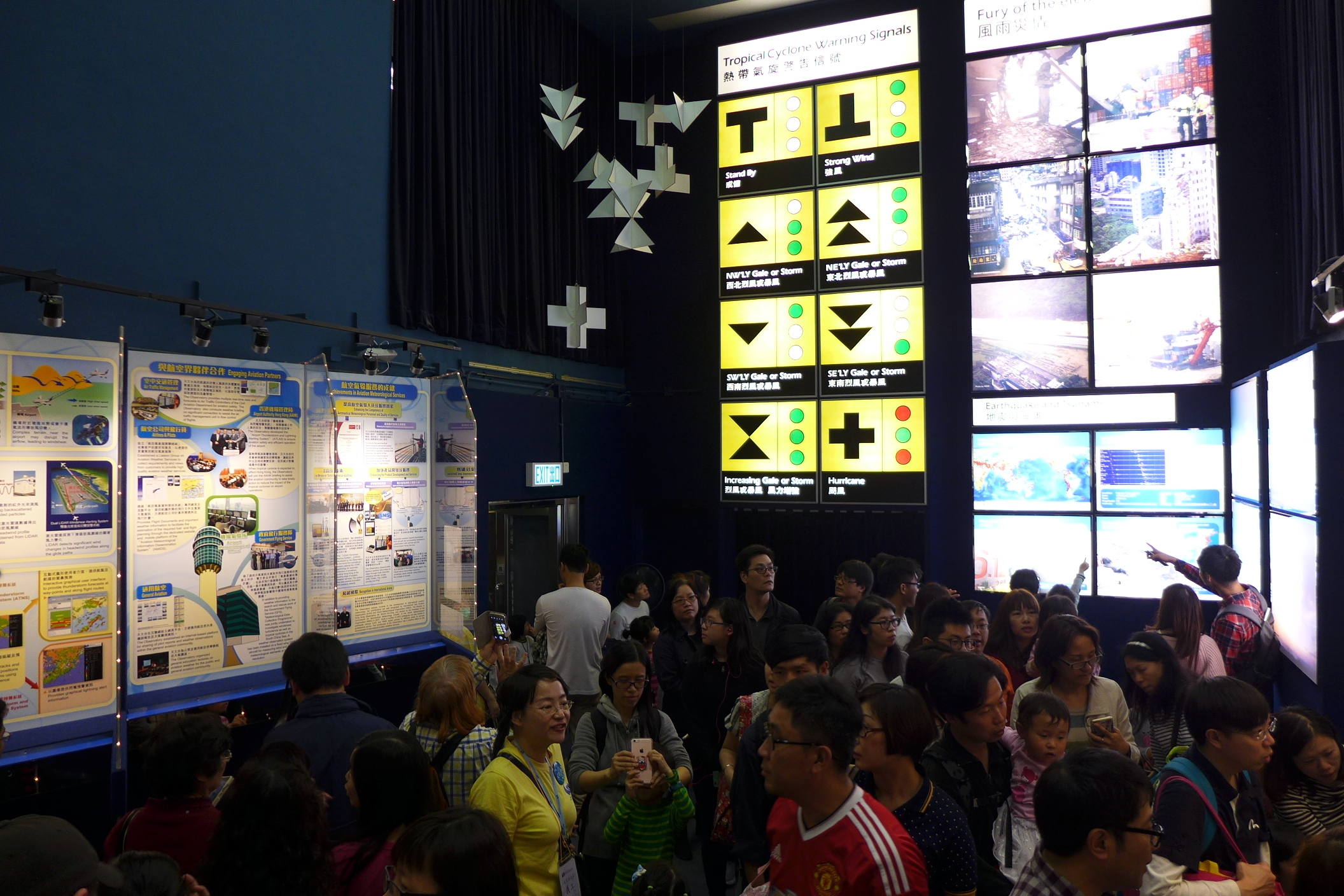 The Hong Kong Observatory Exhibition Hall